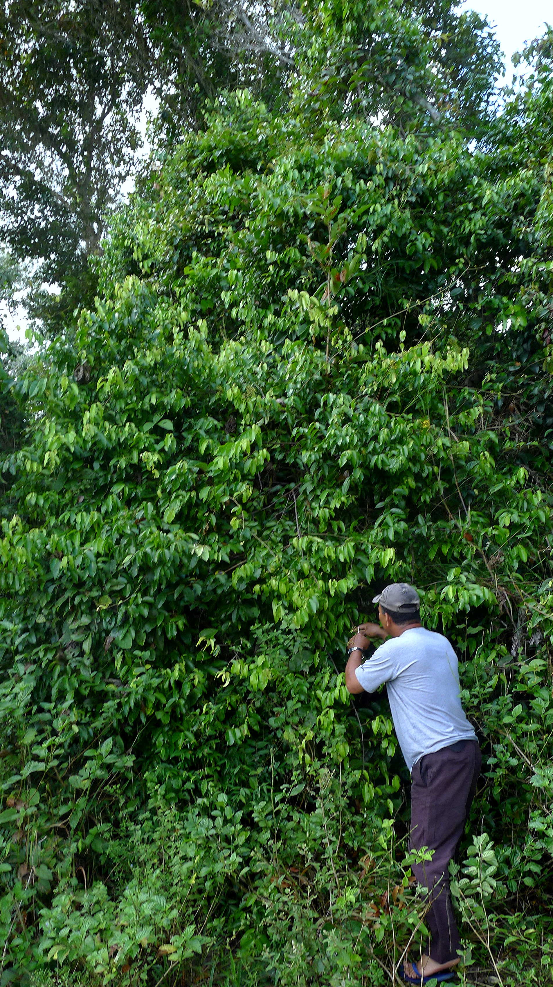 Niedenzuella sp., Malpighiaceae, Atlantic forest, northern littoral of Bahia, Brazil